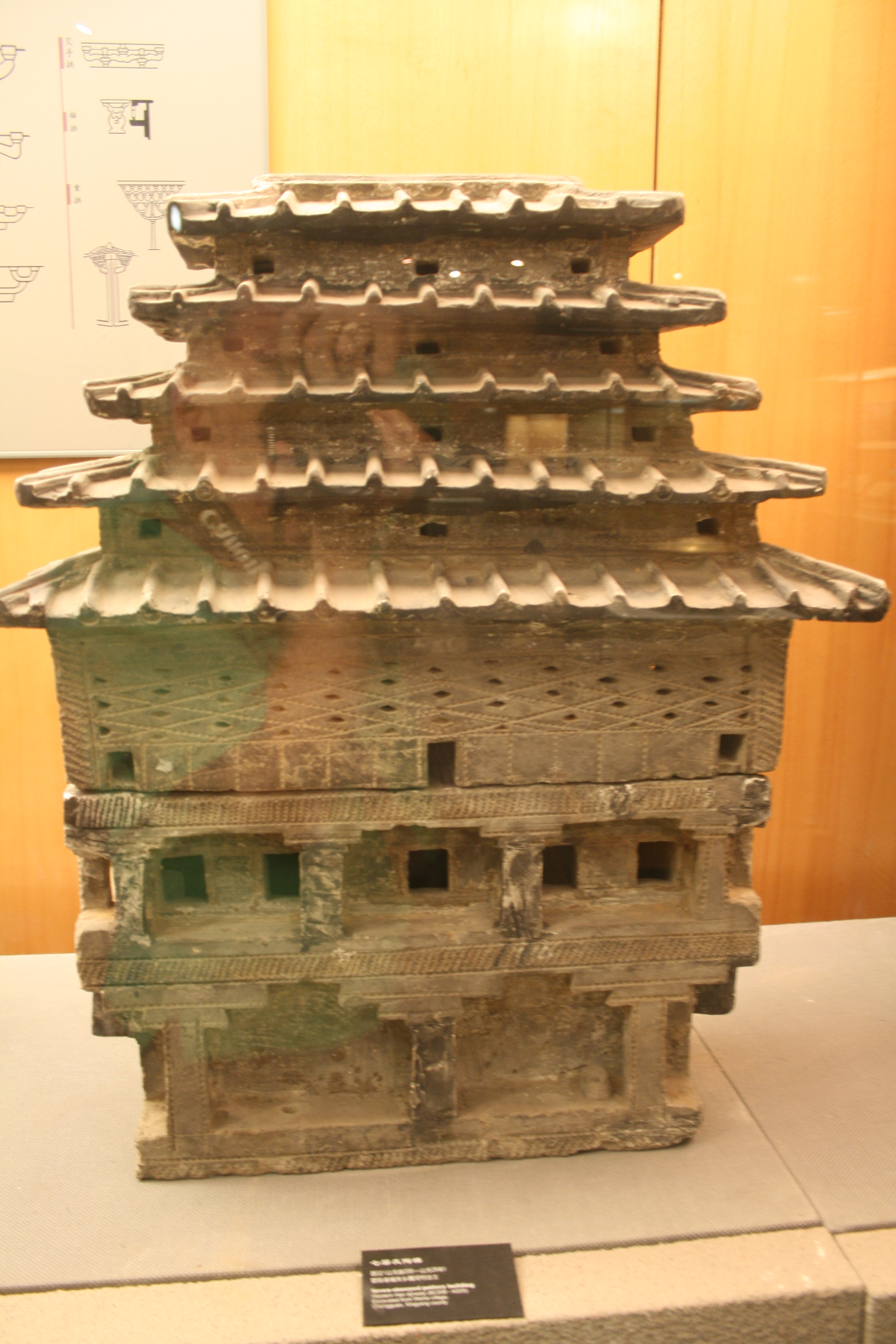 A Chinese ceramic architectural model of a grain storage tower with five layers of tiled rooftops and columns supporting the roofs of balconies on the first two floors, dated from the mid Western Han (202 BC – 9 AD) to early Eastern Han (25–220 AD) era, excavated in 1953 from a tomb at Weihe, Xingyang, Henan Province, China. It is 72 cm tall. This information is taken from: Guo, Qinghua. (2005). Chinese Architecture and Planning: Ideas, Methods, and Techniques. Stuttgart and London: Edition Axel Menges. ISBN 3932565541. This tower is now located in the Henan Provincial Museum, Zhengzhou, China; this photo is from the collection posted at by Dr. Gary L. Todd, Professor of History, Sias International University, Xinzheng, China.